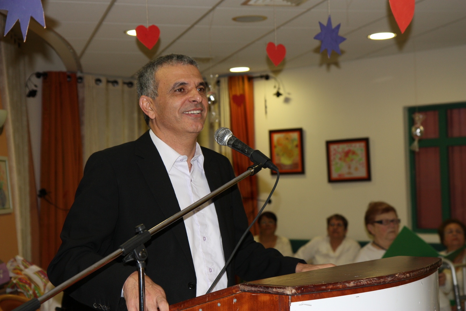 Minister Moshe Kahlon addressing the opening the first of a series of social clubs for Holocaust survivors in Givat Olga, Hadera on 14 February 2012 Inauguration of British Club for Holocaust survivors